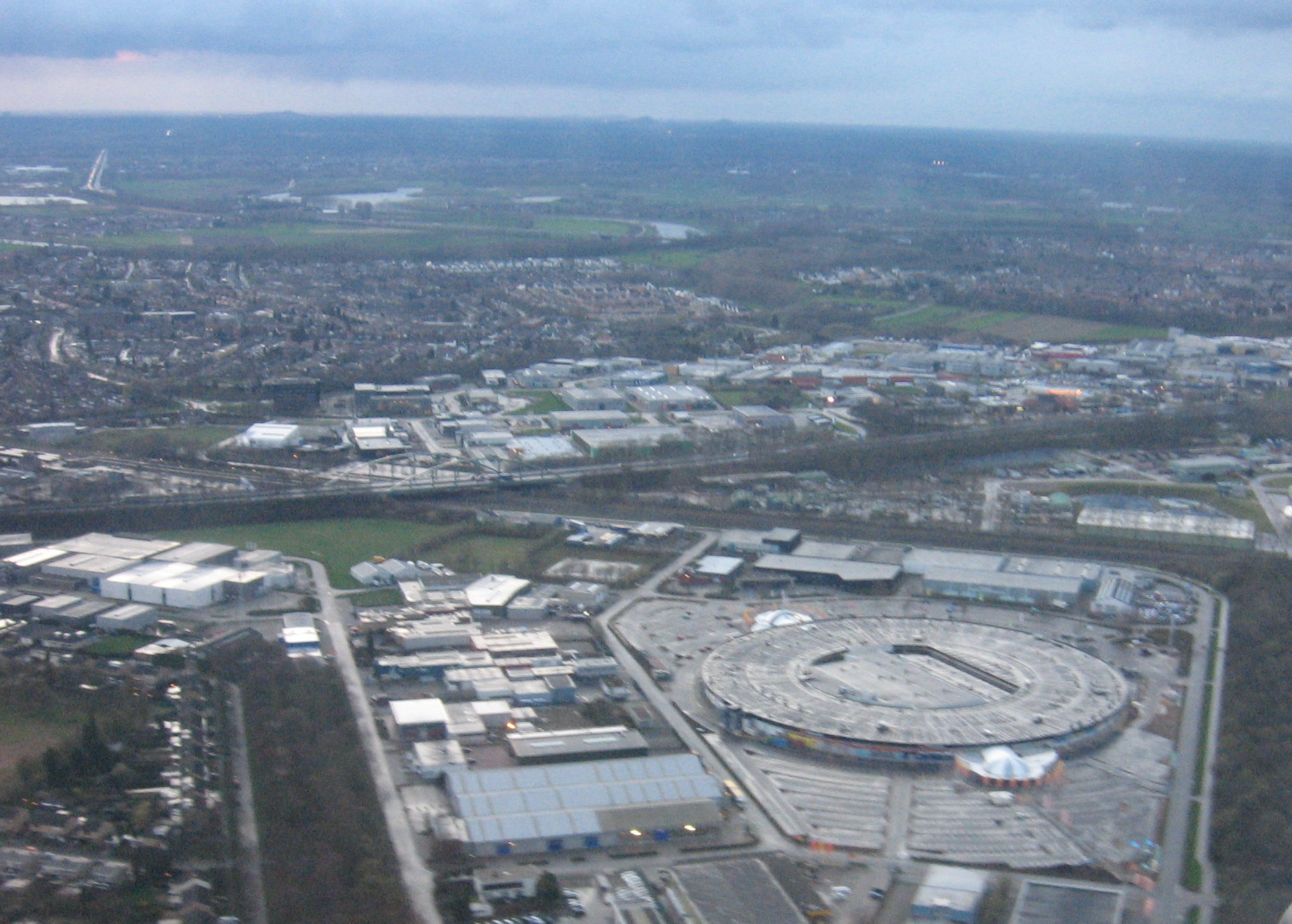 Makado - Beek